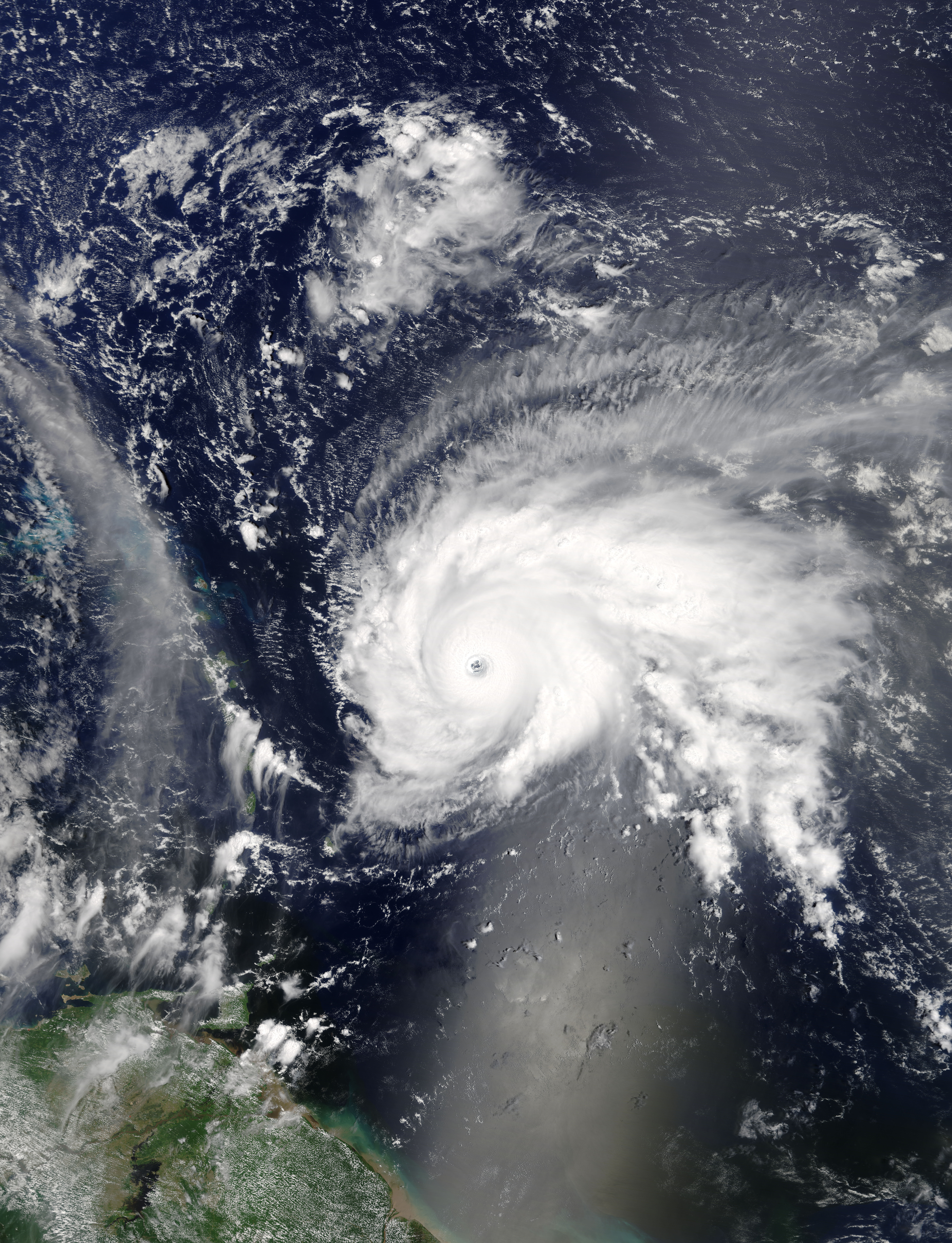 Hurricane Jose approaching the Leeward Islands on September 8, 2017.